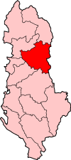 Locator map for Dibër County, within Albania.